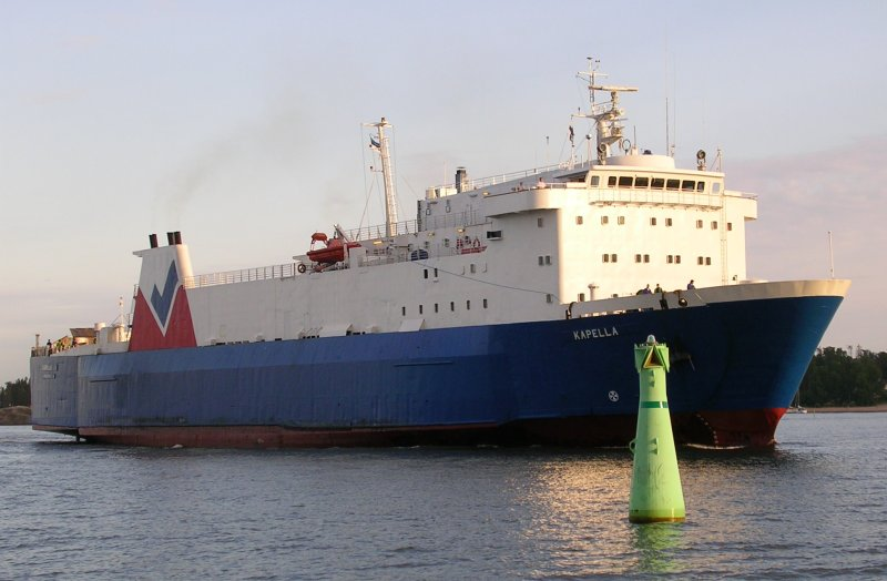 M/S Kapella in Helsinki, summer 2005. Picture taken and uploaded by Kalle Id. IMO Number: 7369118 MMSI Number: 276266000 Callsign: ESIC Length: 110 m Beam: 20 m